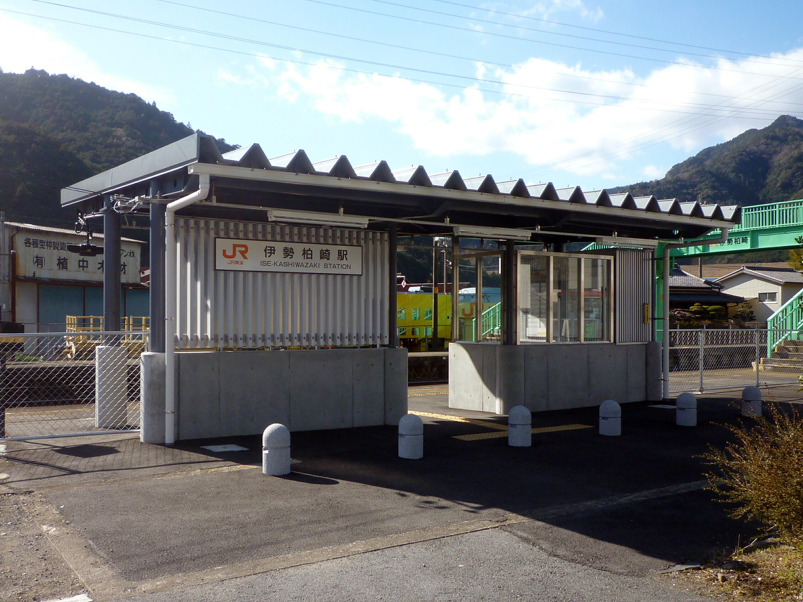 JR Central Kisei Main Line Ise-Kashiwazaki Station in Saki, Taiki Town, Watarai District, Mie, Mie Prefecture, Japan.